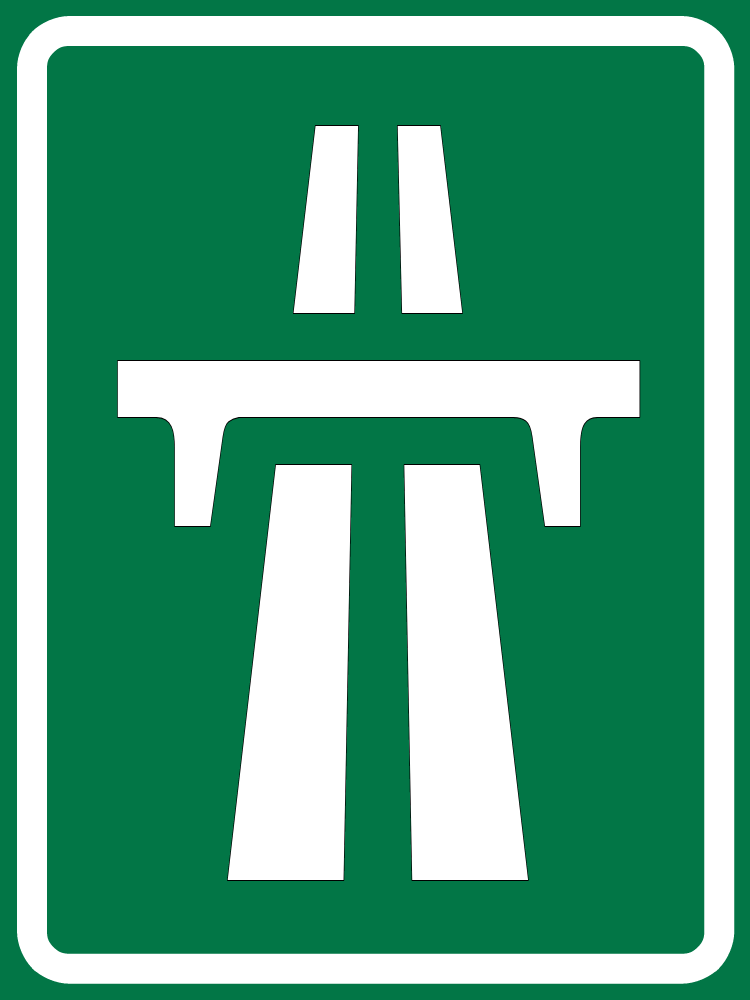 Malaysian expressway logo